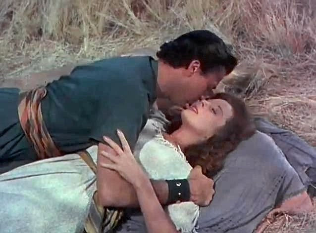 Screenshot of Susan Hayward from the trailer for the film David and Bathsheba (1951).